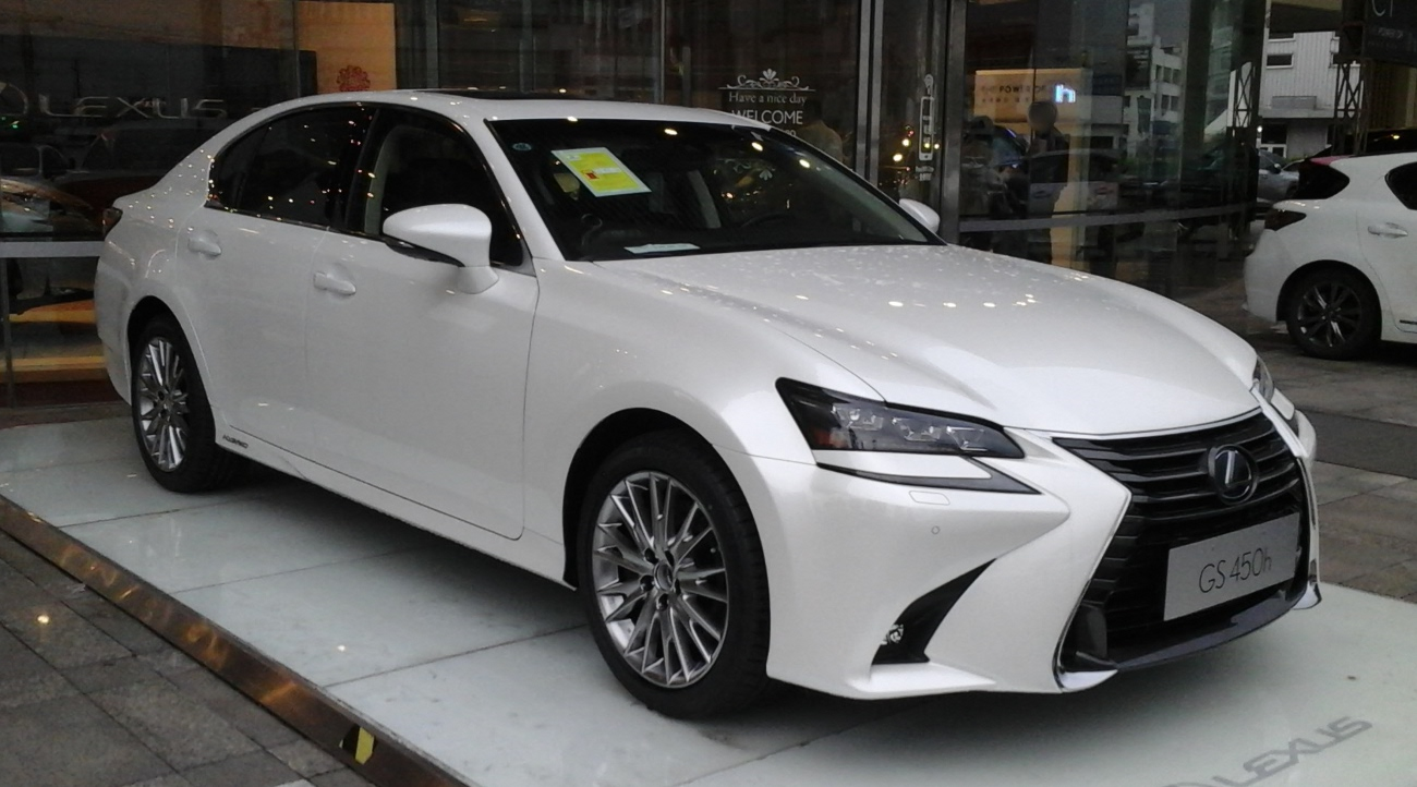 Lexus GS L10 Hybrid facelift photographed in Shanghai, China.